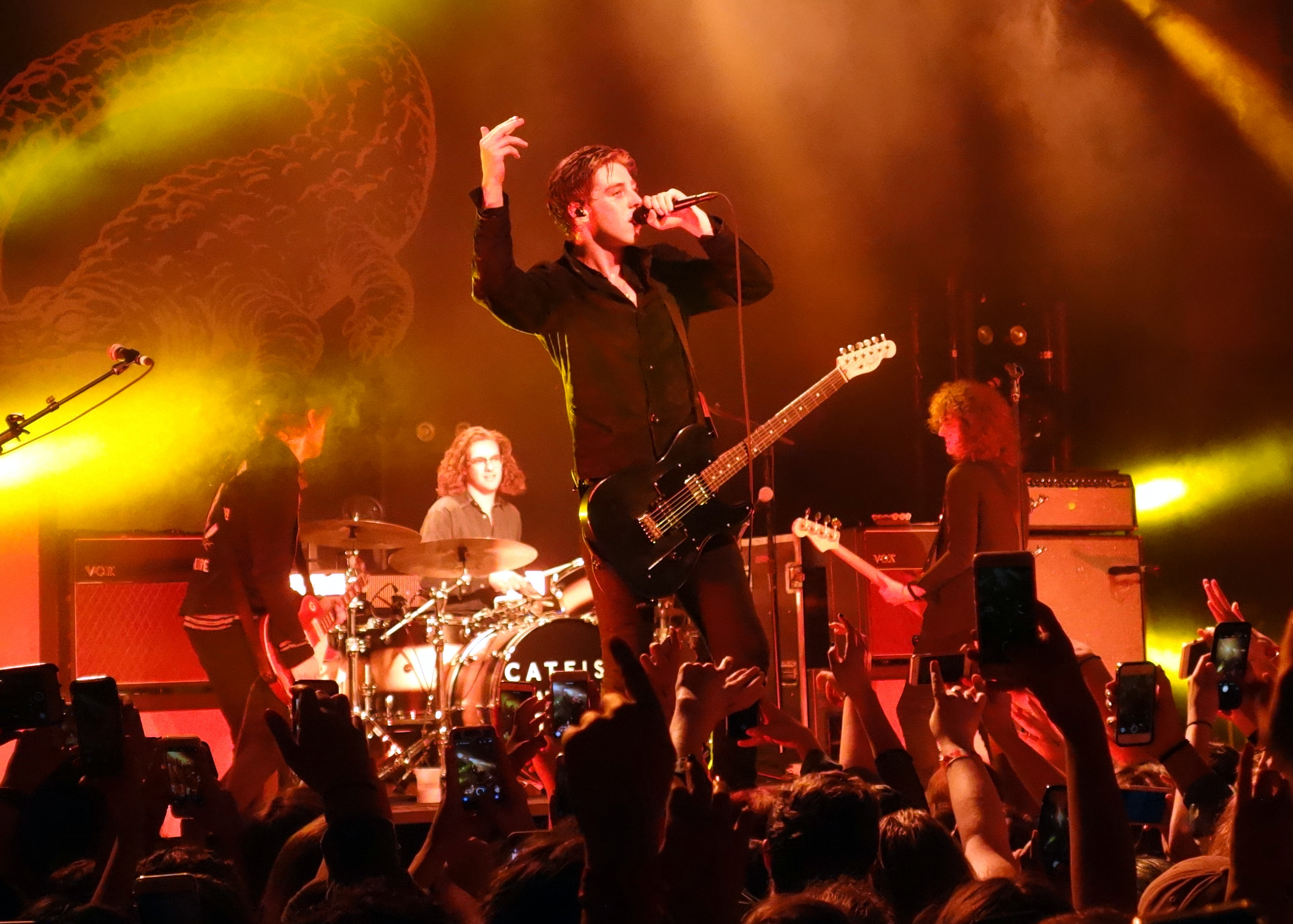 Catfish and the Bottlemen performing at Brooklyn Steel on May 6, 2017.